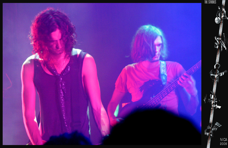 The Strokes, Pompano Beach, Club Cinema Live